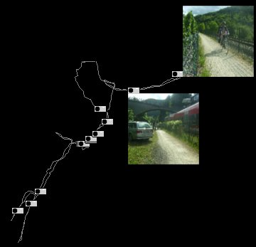 GPS tracks with geotagged pictures, two of them shown.